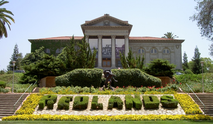 Admin Building of the University of Redlands